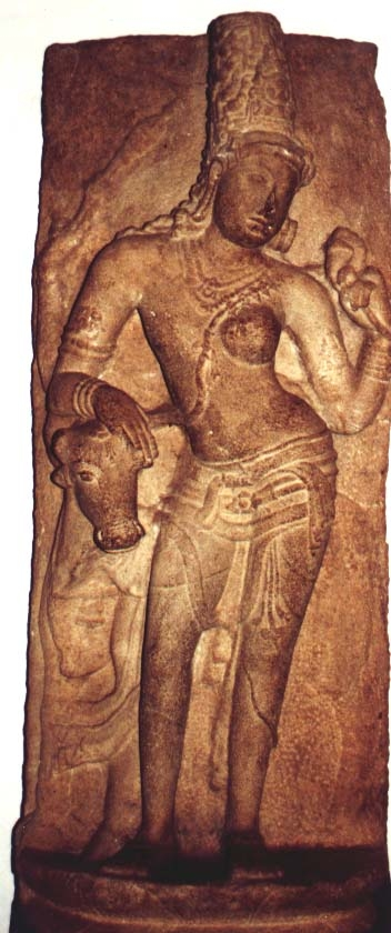 Ardhanaisvara, India